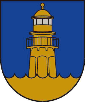 Coat of arms of Mērsrags Municipality, Latvia.